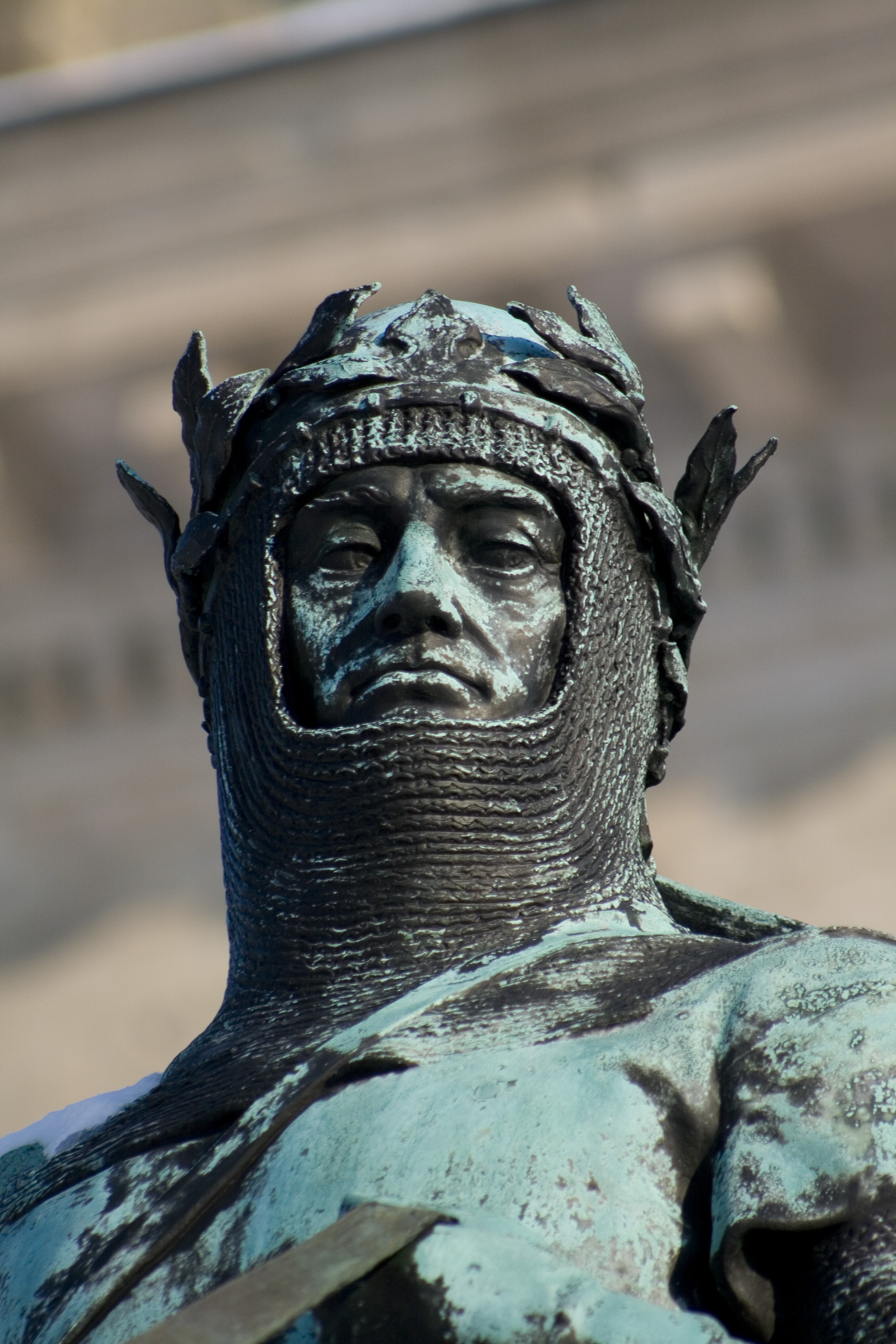 Statue of Otto from Wittelsbach, Munich, Germany